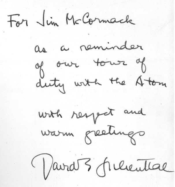 This is the handwriting of David E. Lilienthal, former chairman of the United States Atomic Energy Commission, from an inscription in his 1963 book Change, Hope and the Bomb, inscribed to Major General James McCormack, Jr., former AEC Director of Military Applications. The inscribed copy was purchased by the uploader at a book sale at the United States Department of State in Washington, D.C. in the 1970s.